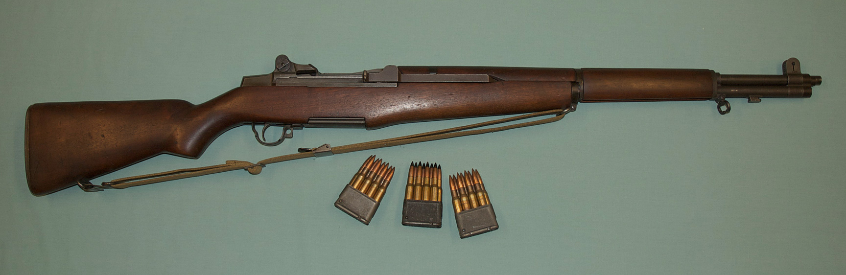 M1 Garand Rifle manufactured in May 1945 with WWII era canvas web sling.